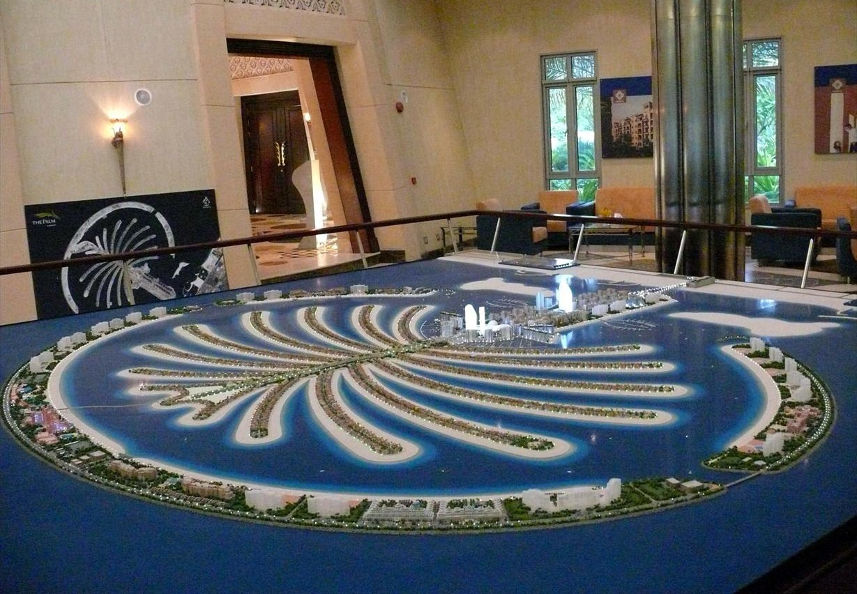 This is a photo of a model of the Palm Jumeirah in Dubai, United Arab Emirates on 12 January 2008. The model is on display at the Nakheel Sales Centre.